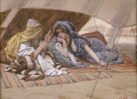 Abram's Counsel to Sarai, c. 1896-1902, by James Jacques Joseph Tissot (French, 1836-1902), gouache on board, 6 x 8 1/8 in. (15.2 x 20.7 cm), at the Jewish Museum, New York